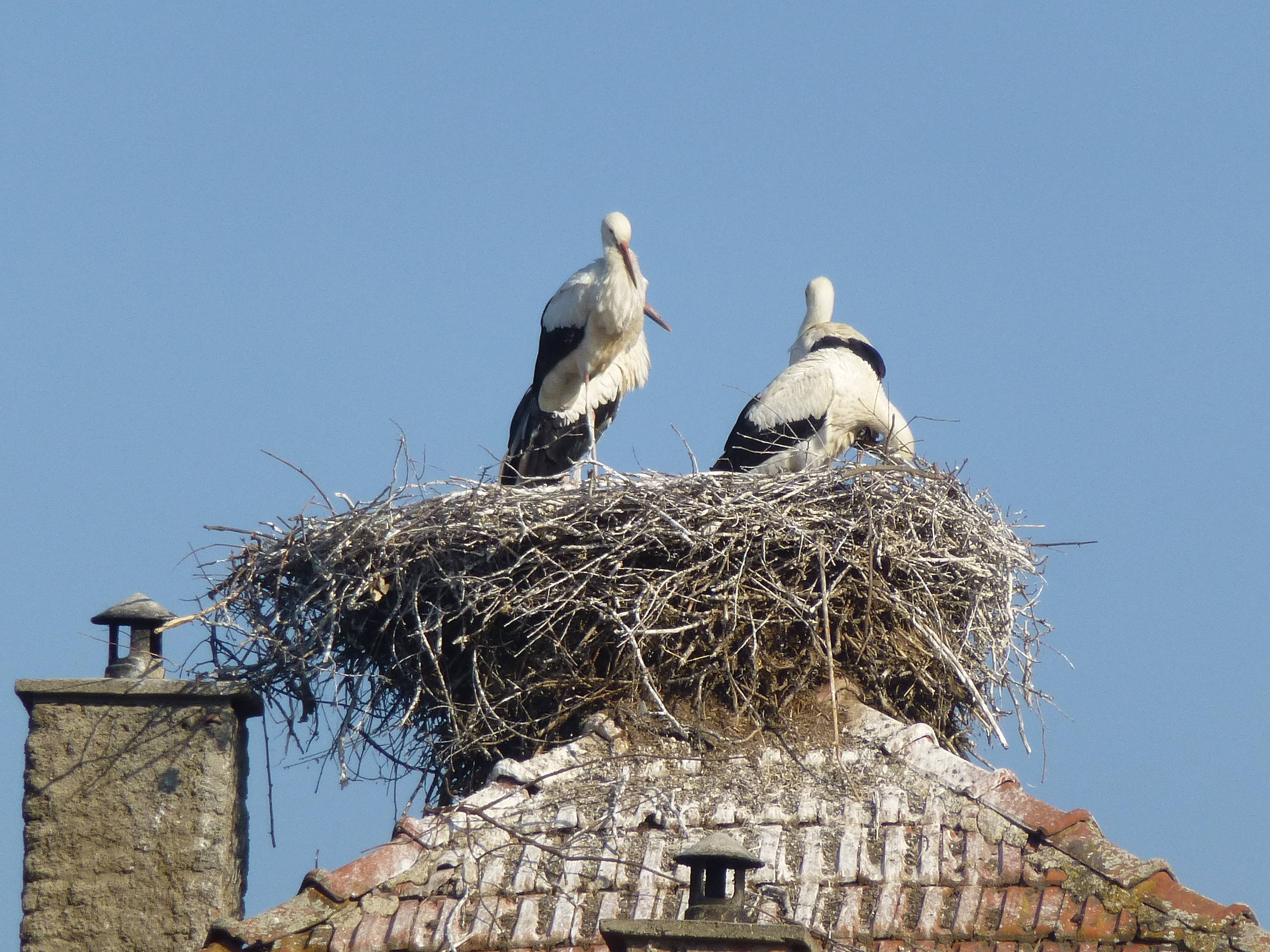 The village of Krivogashtani in Macedonia. Plenty of storchs nest there!